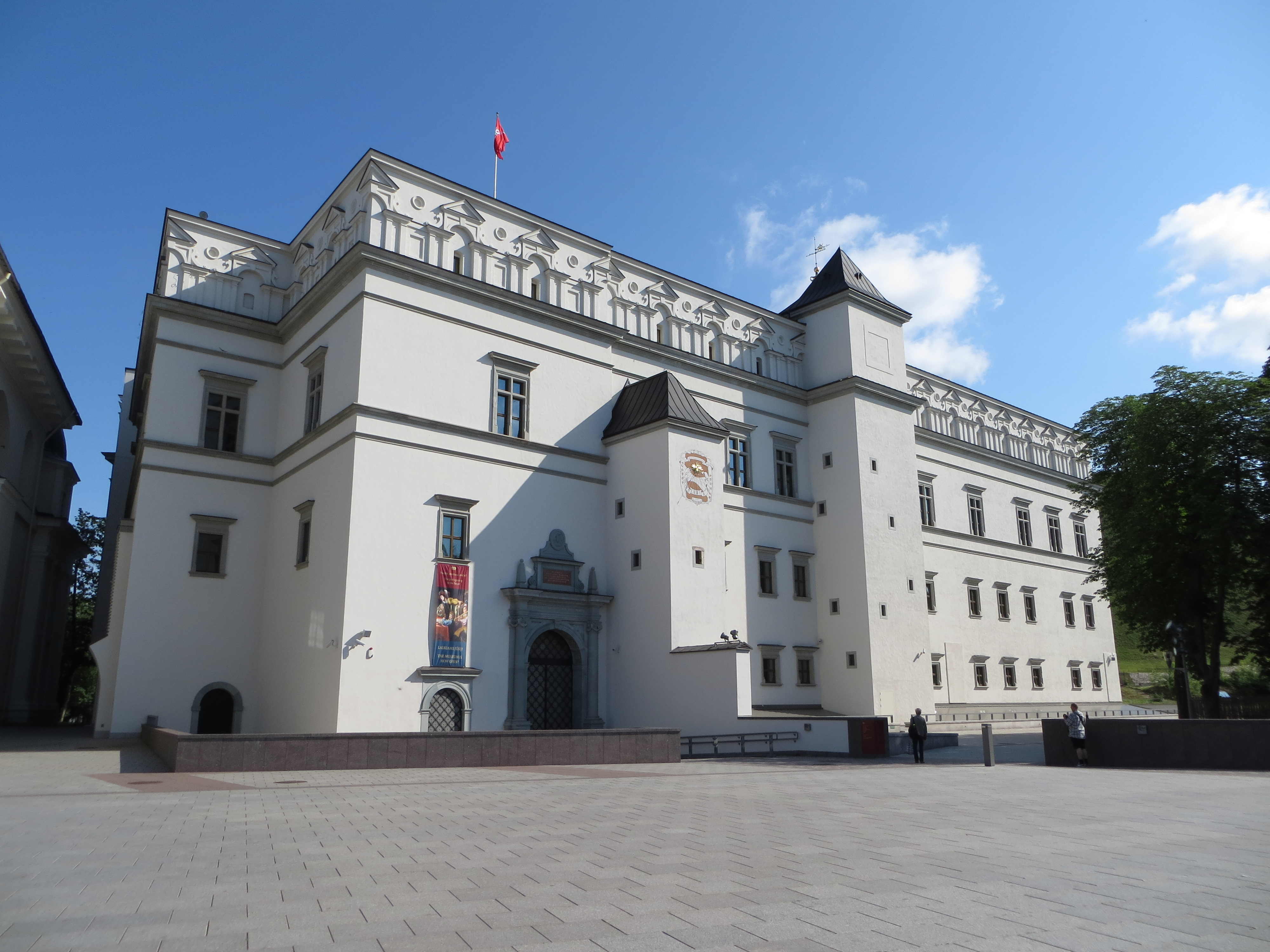 Photo of the Palace of the Grand Dukes of Lithuania in 2013.